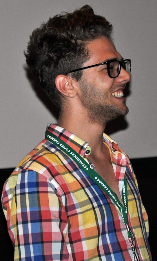 Xavier Dolan: writer, director and star of J'ai tué ma mère